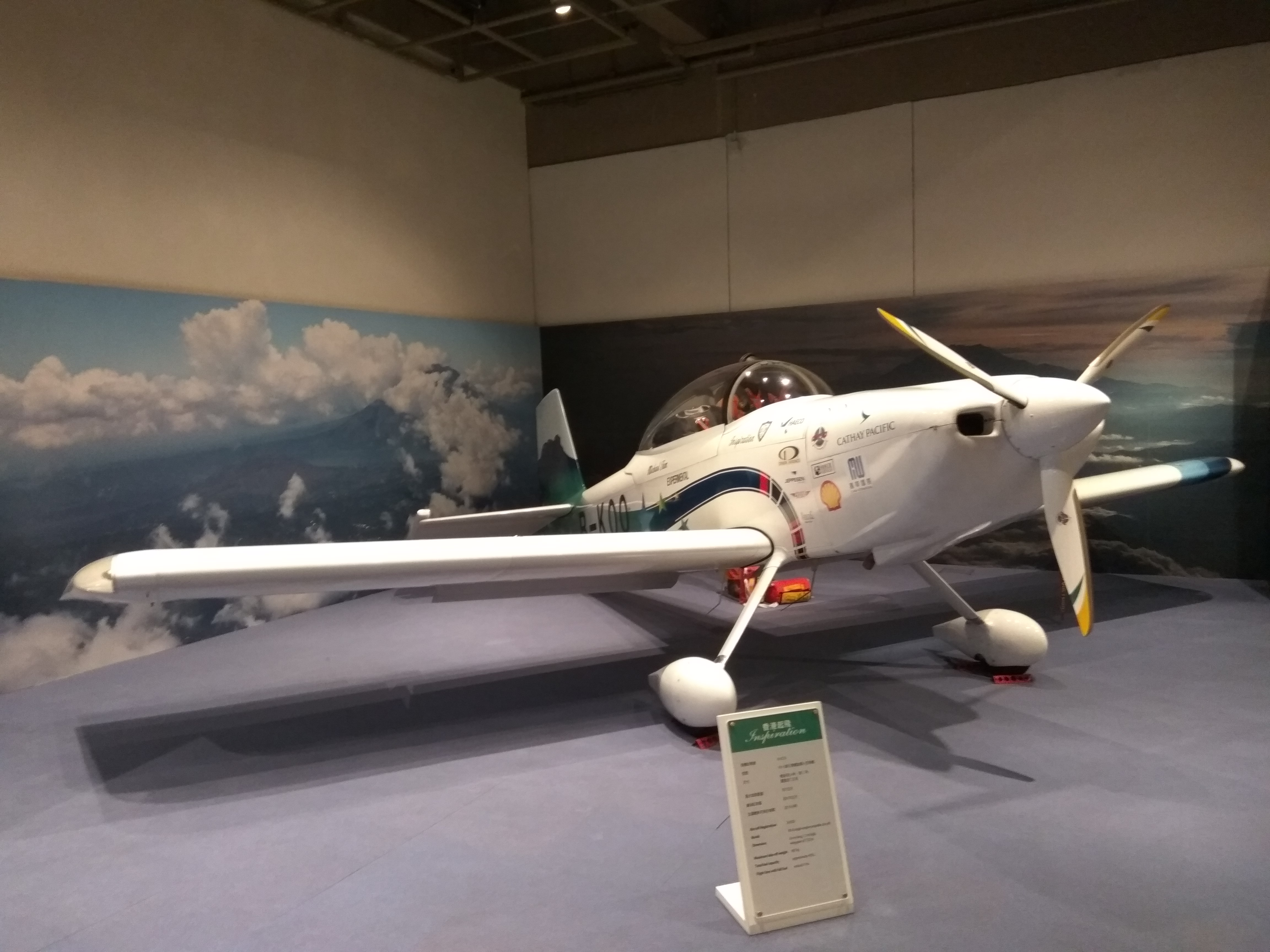 The B-KOO, named "Inspiration", is the first homebuilt aircraft certified in Hong Kong. The photo was taken in Hong Kong Science Museum.